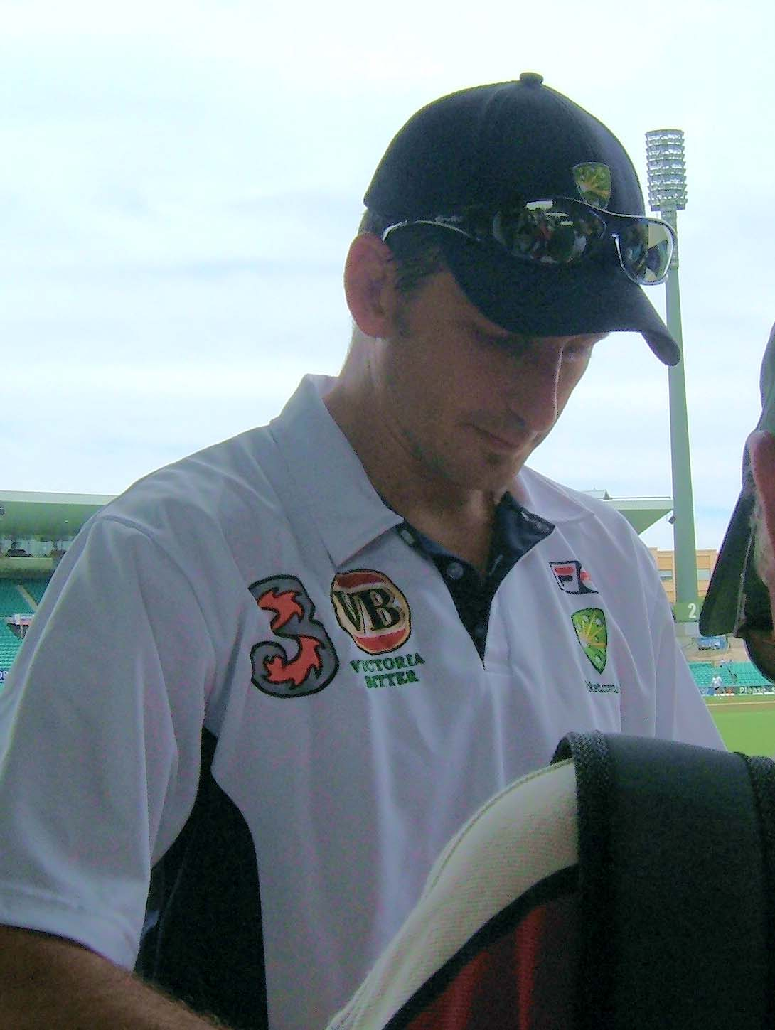 Australian Cricketer